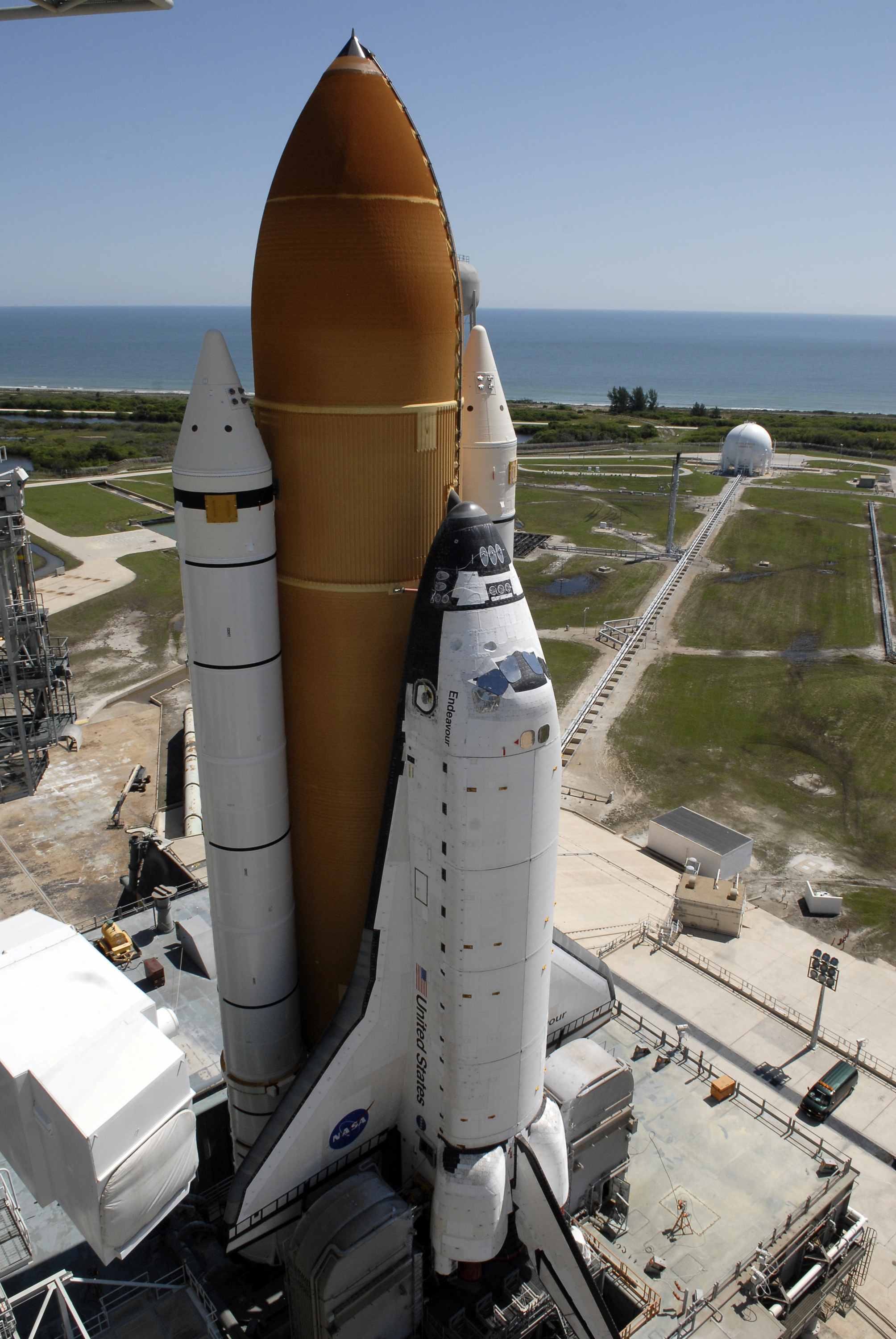 CAPE CANAVERAL, Fla. – At NASA's Kennedy Space Center in Florida, the Atlantic Ocean is backdrop for space shuttle Endeavour as it reaches the hardstand on Launch Pad 39A. First motion of the 3.4-mile rollaround from Launch Pad 39B was at 3:16 a.m. EDT, and the shuttle was secured to Launch Pad 39A at 11:42 a.m. EDT. Endeavour was on standby on Pad 39B to be used in the unlikely event that a rescue mission was necessary during space shuttle Atlantis' STS-125 mission to NASA's Hubble Space Telescope. The payload on Endeavour's next mission, STS-127, includes the Japan Aerospace Exploration Agency's Kibo Exposed Facility and the Experiment Logistics Module Exposed Section of the International Space Station. They will be installed on the Kibo laboratory already on the station. Launch of STS-127 is targeted for June 13.